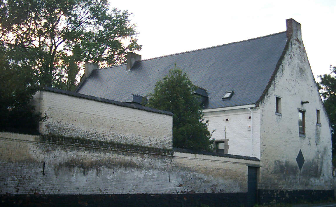 La Haye Sainte from the road to Charleroi